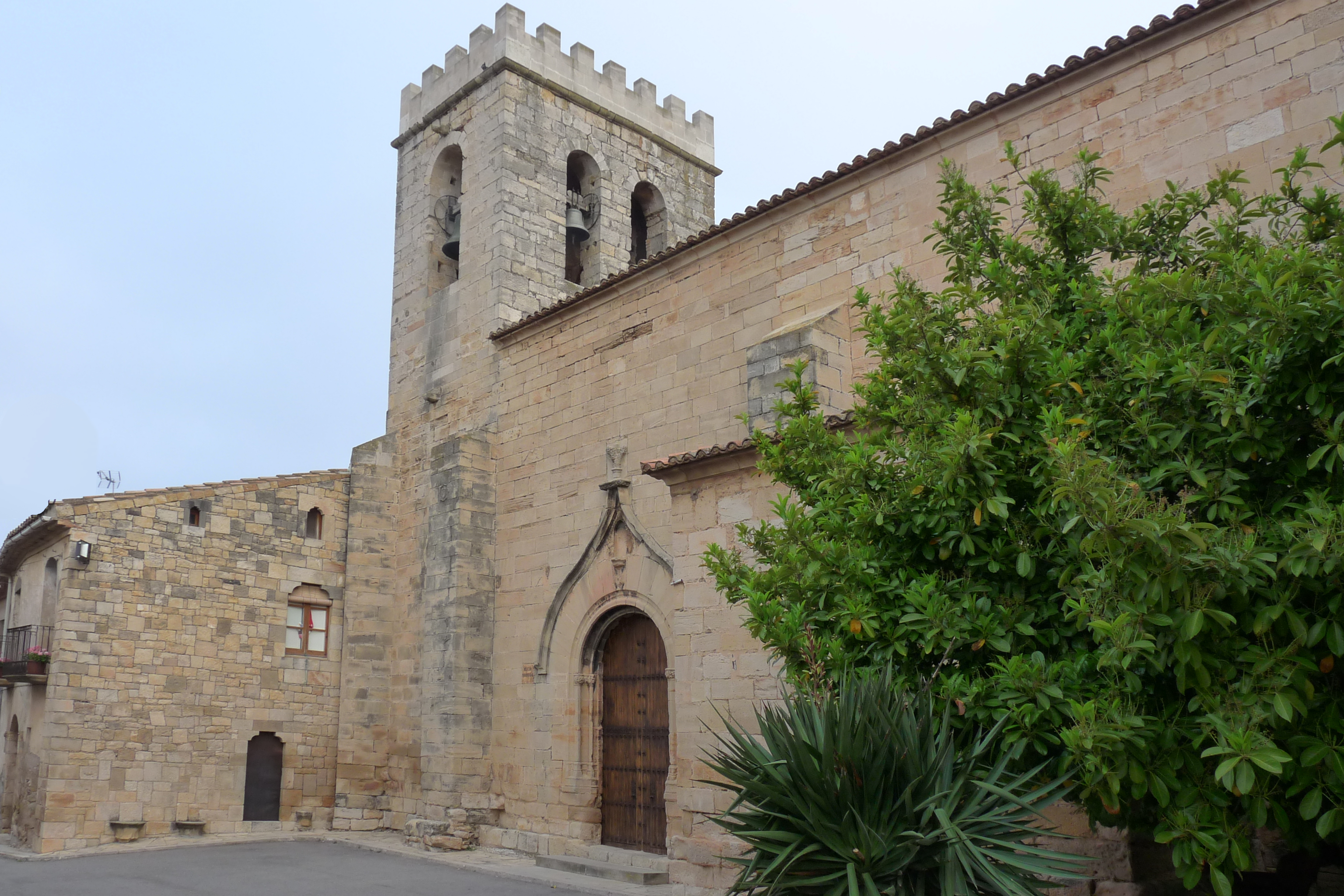 Church of Vimbodí